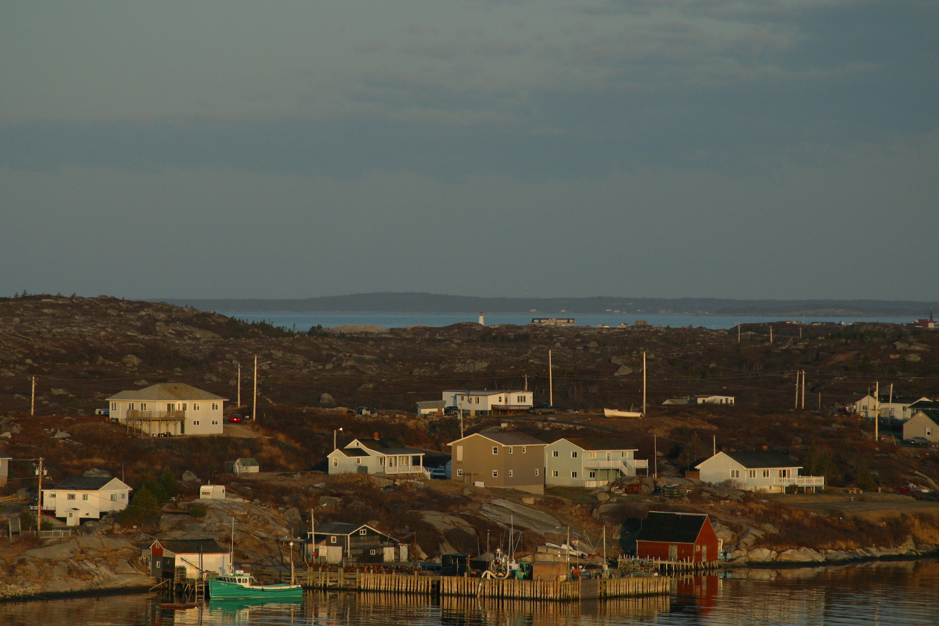 A view of the West Dover government wharf.